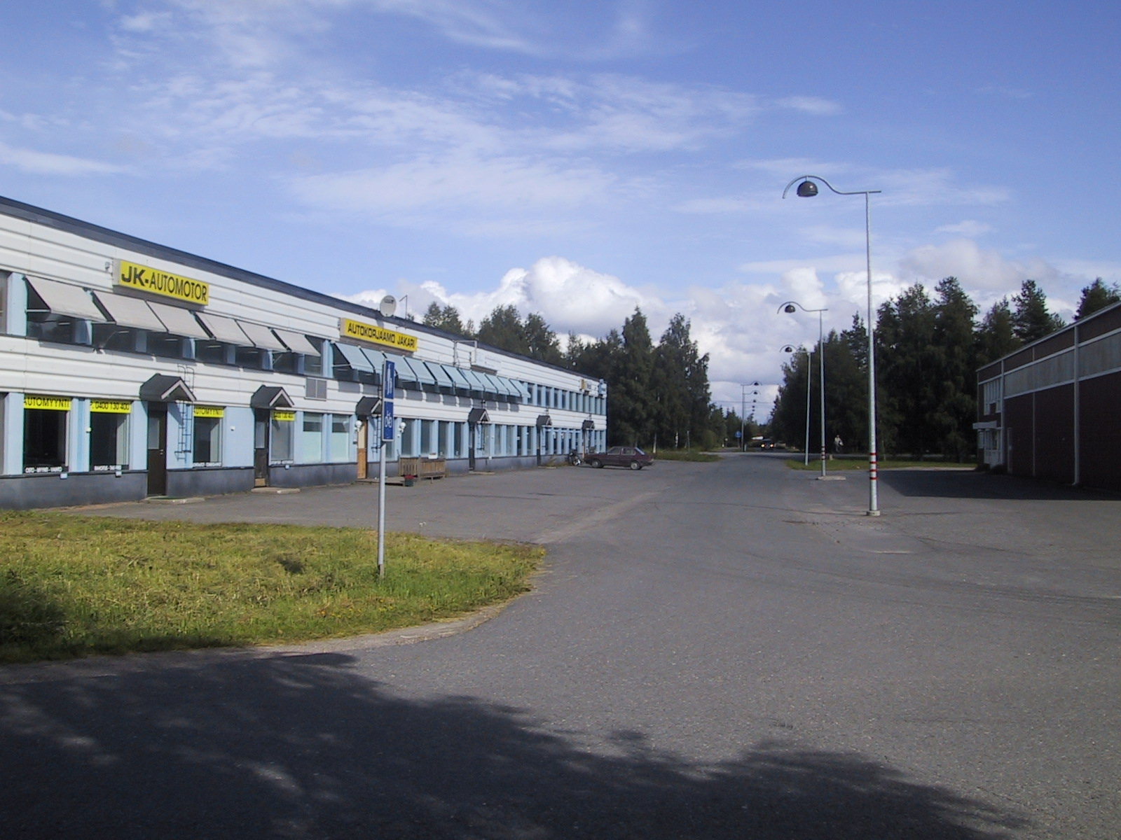 Kissankulma, Ristisuo, a village in Kempele Finland